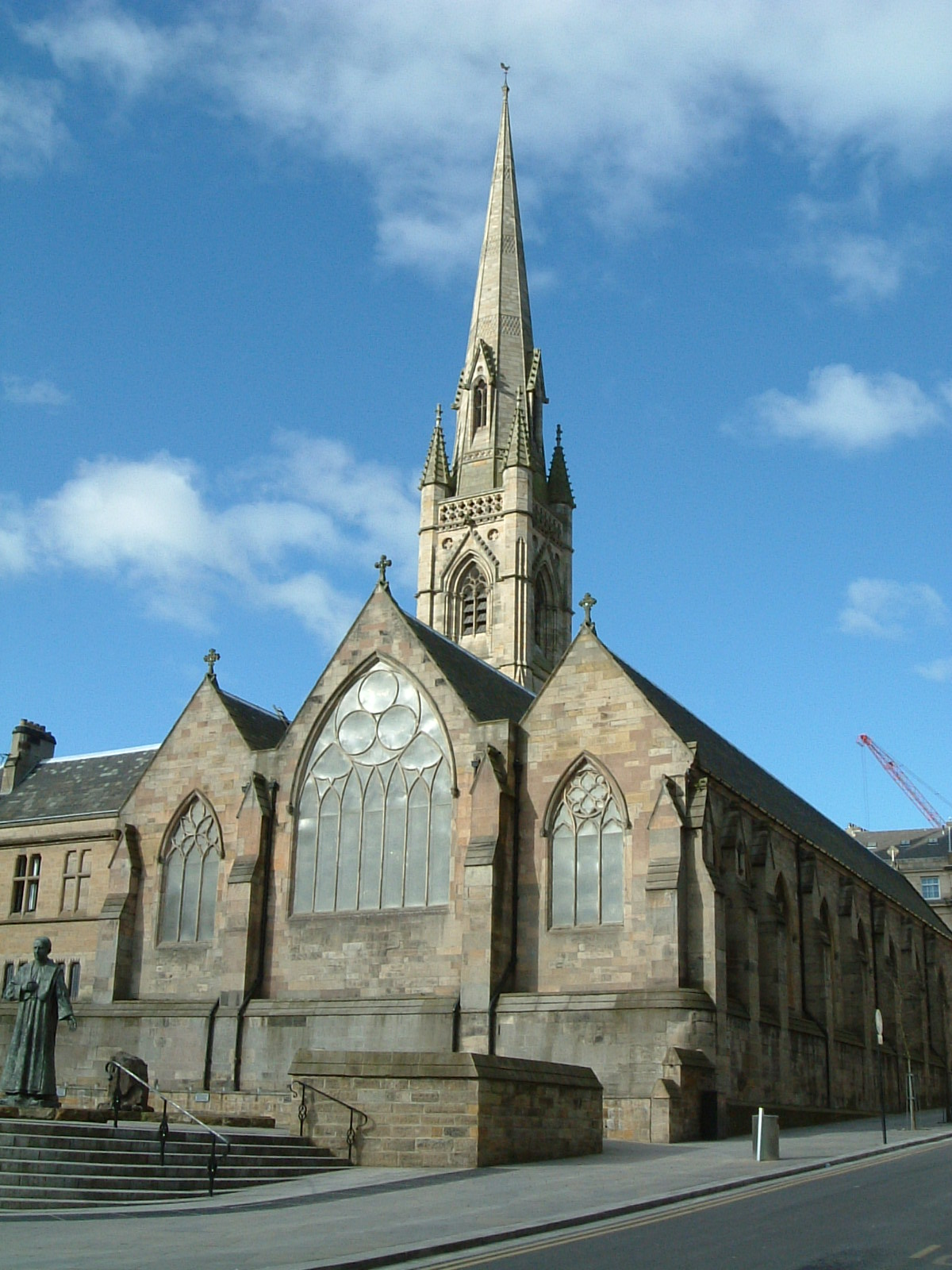 Newcastle St Mary's Cathedral Taken by James@hopgrove, March 2006